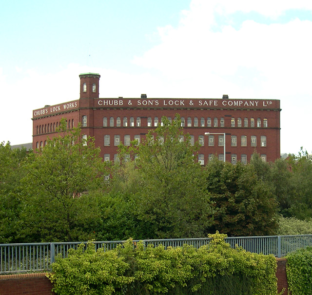 The Chubb Building, Wolverhampton